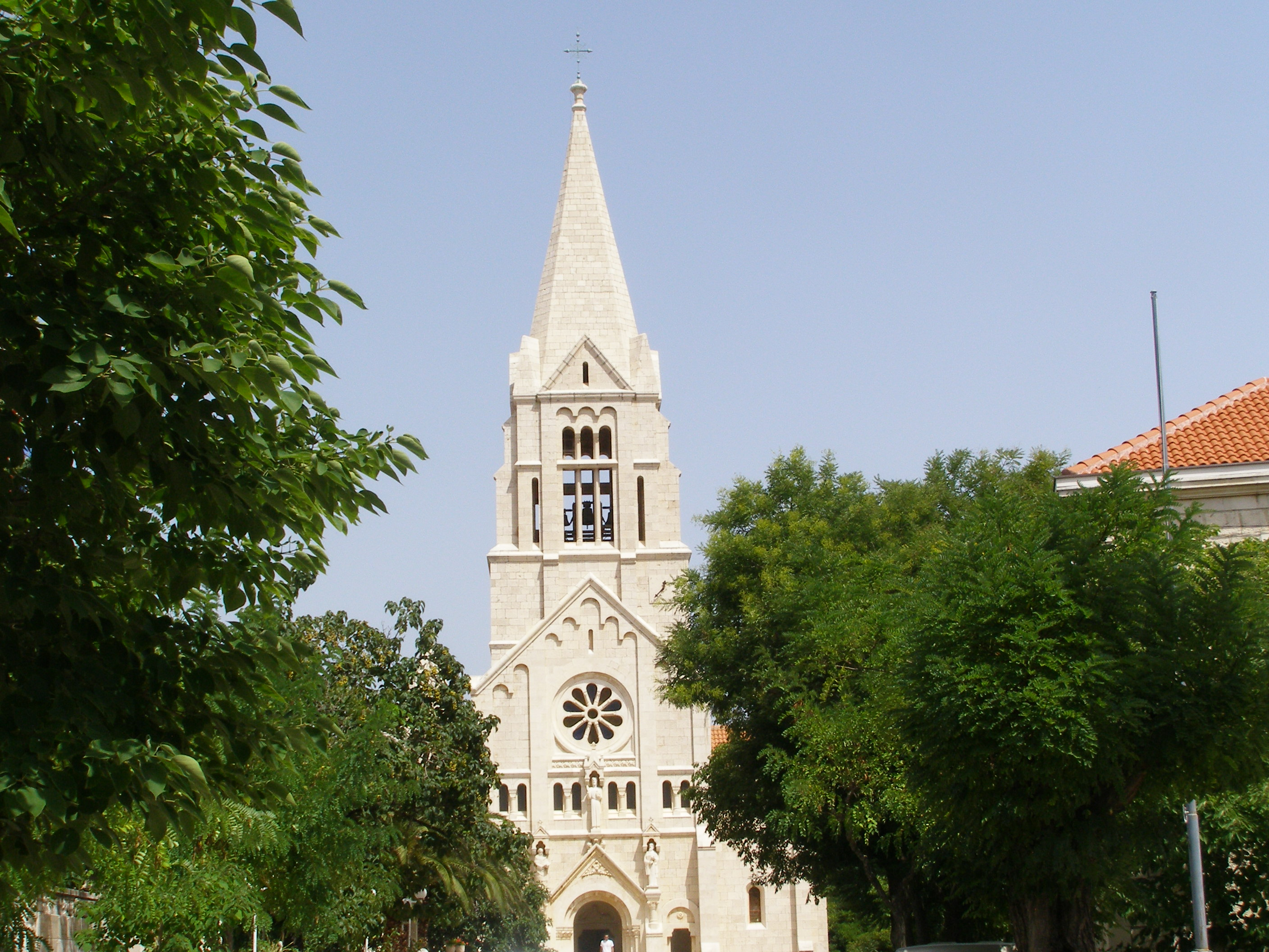 Roman Catholic church, Selca, Island of Brač, Croatia